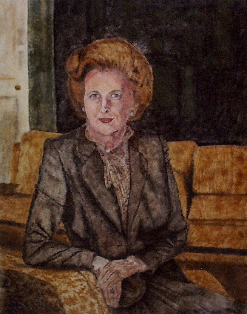 Following an experiment during the mid eighties in an attempt to create a permanent image incorporating magnetised iron filings, Environmental Sand Artist Brian Pike produced a picture entitled 'A field of magnetised iron filings'. This was a forerunner to a Sand Painting which incorporated magnetised iron filings in Mrs. T's suit and also in the background of the compostion.